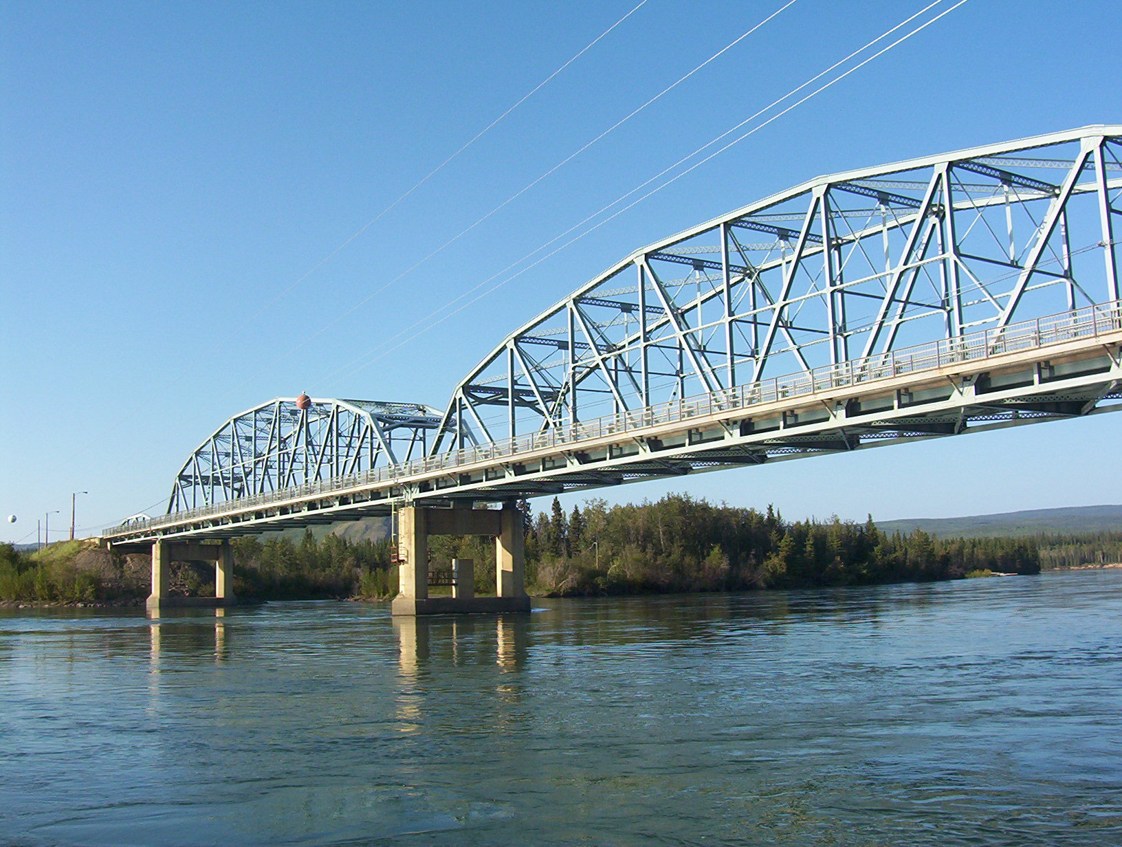 A bridge across the Yukon river at Carmacs, Yukon, Canada